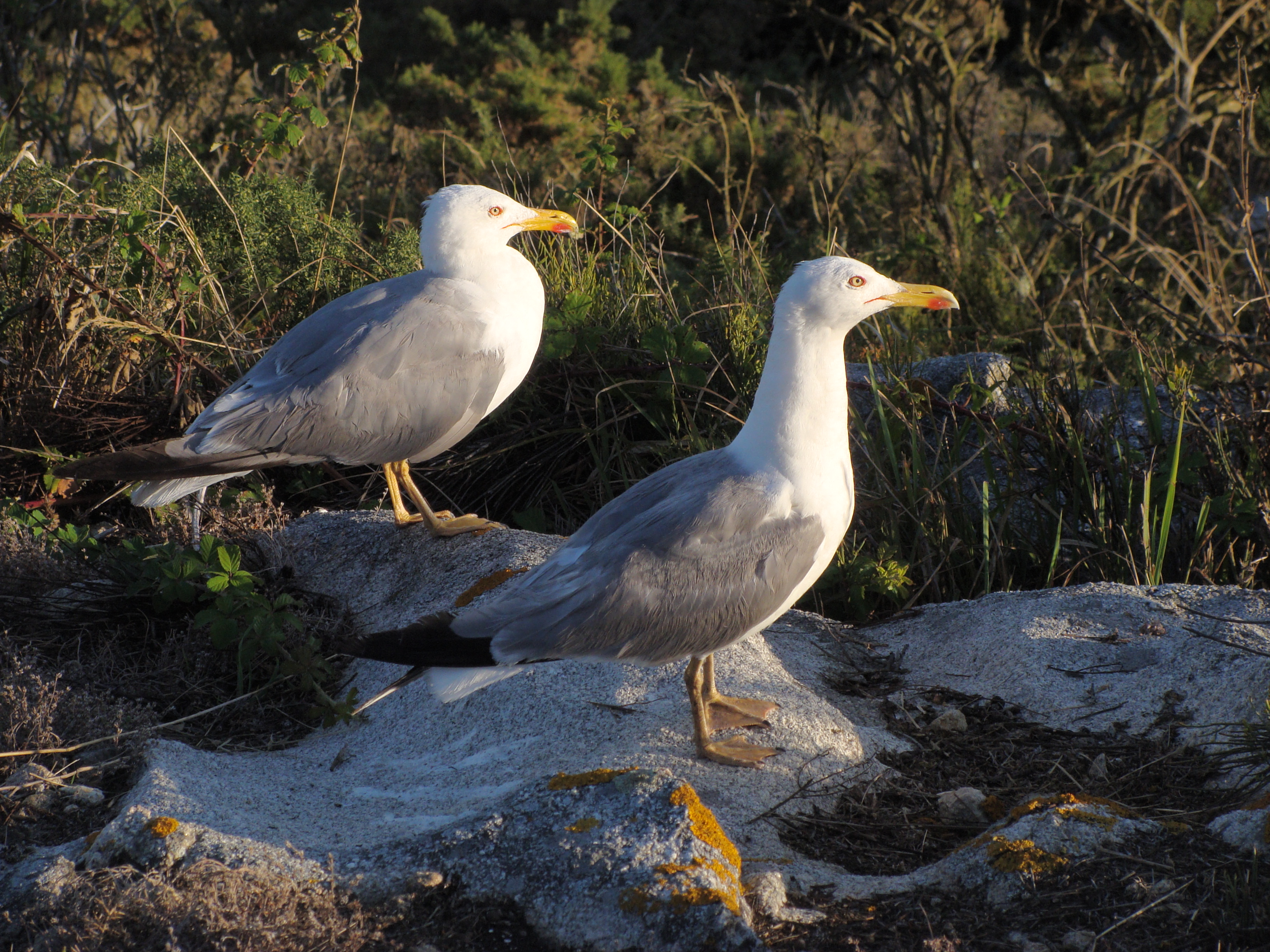 Larus michahellis (Yellow-legged Gull) in Cíes Islands, Pontevedra, Galicia, Spain.